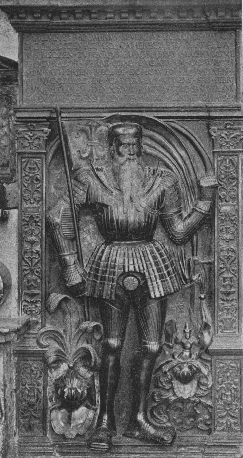 Epitaph of Sewryn Boner, made probably in workshop of Hans Visher in Nuermberg. Located in Church of St. Mary in Kraków, Poland.